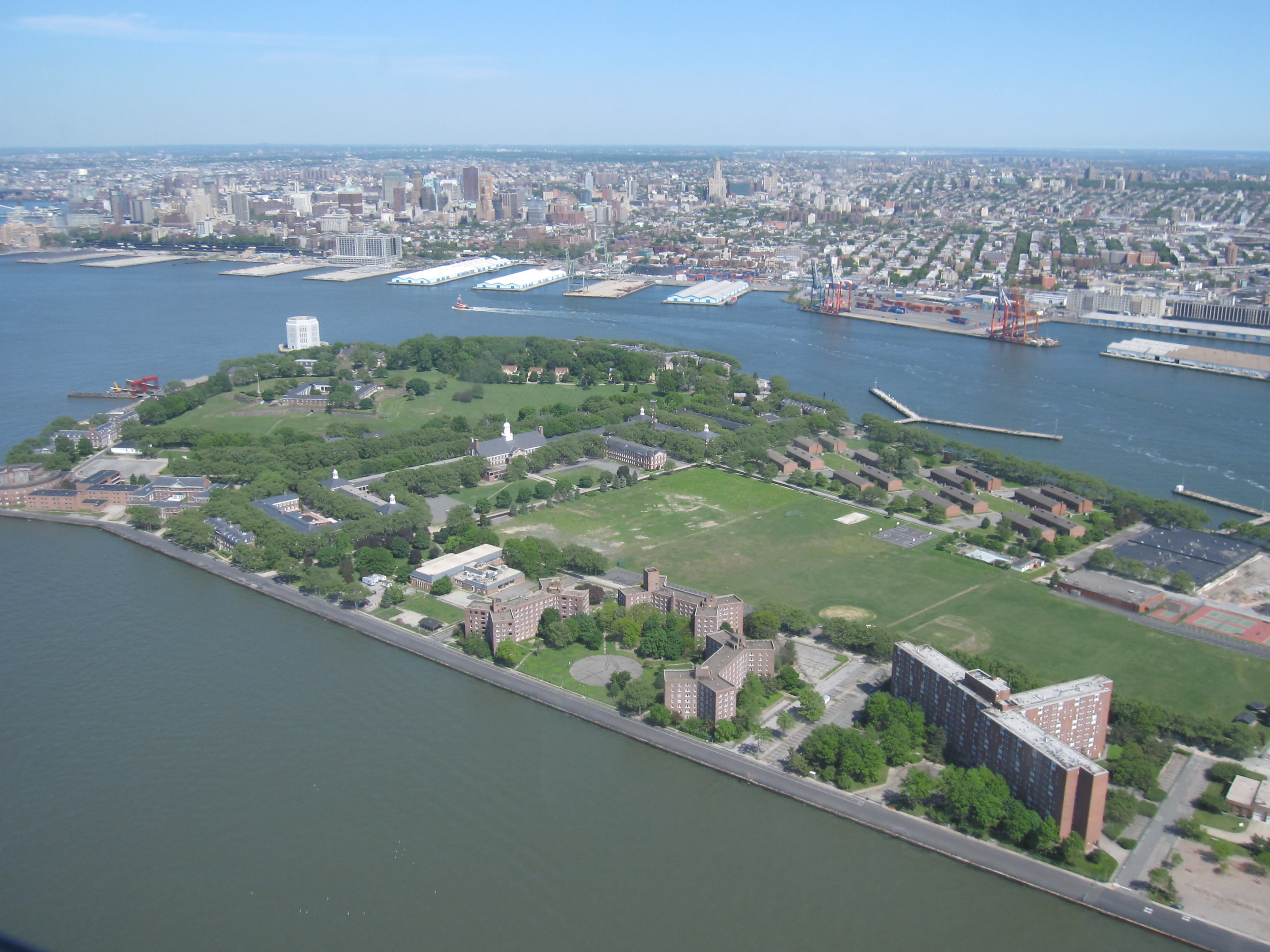 Aerial view of Governors Island